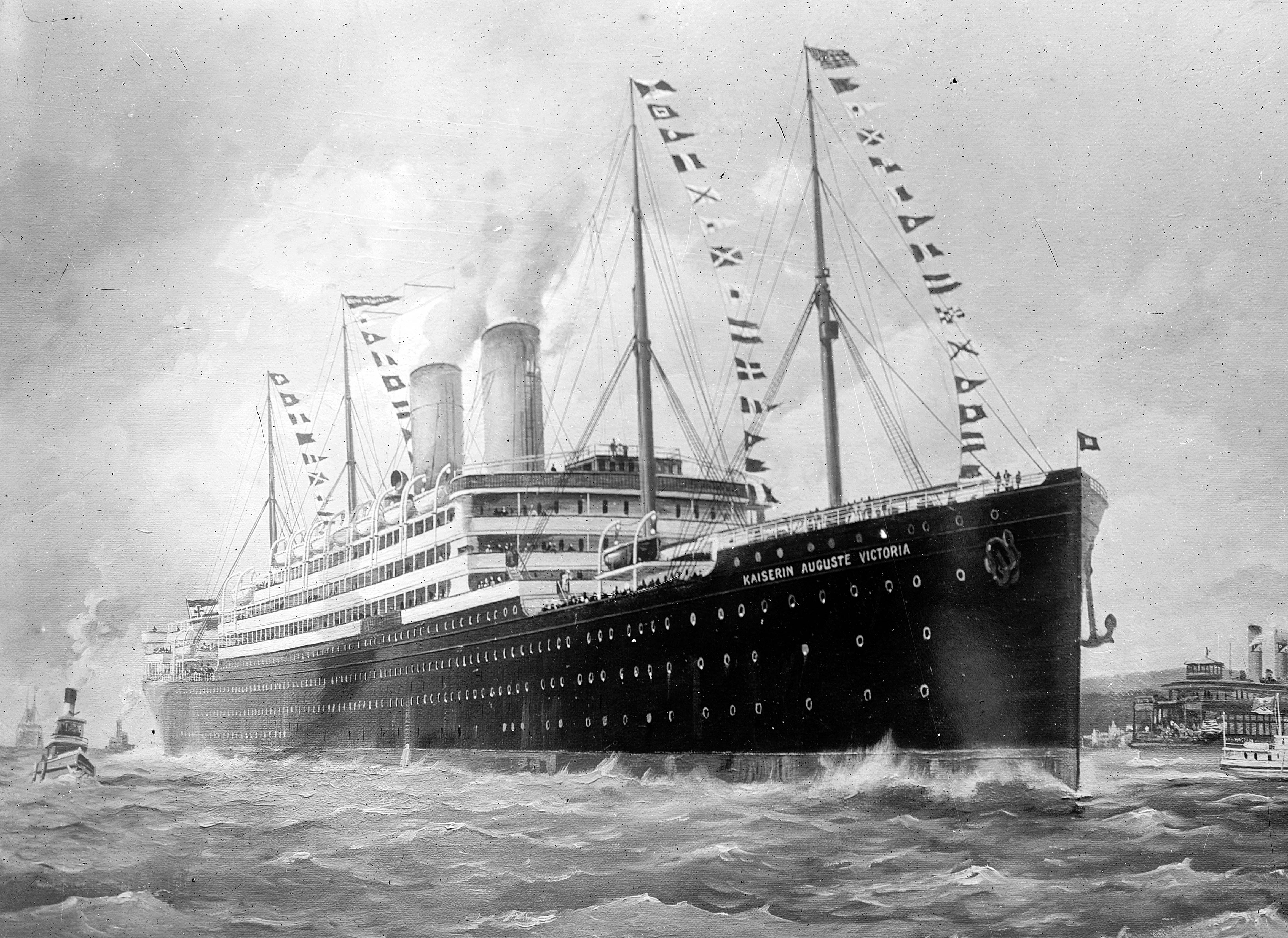 Painting of SS Kaiserin Auguste Victoria